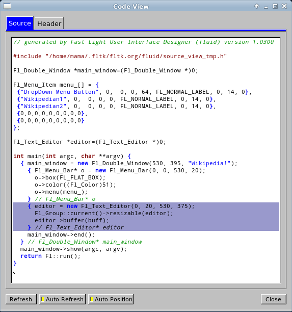 This picture shows FLUID (an open source program) displaying the source code of a simple FLTK program that I created.